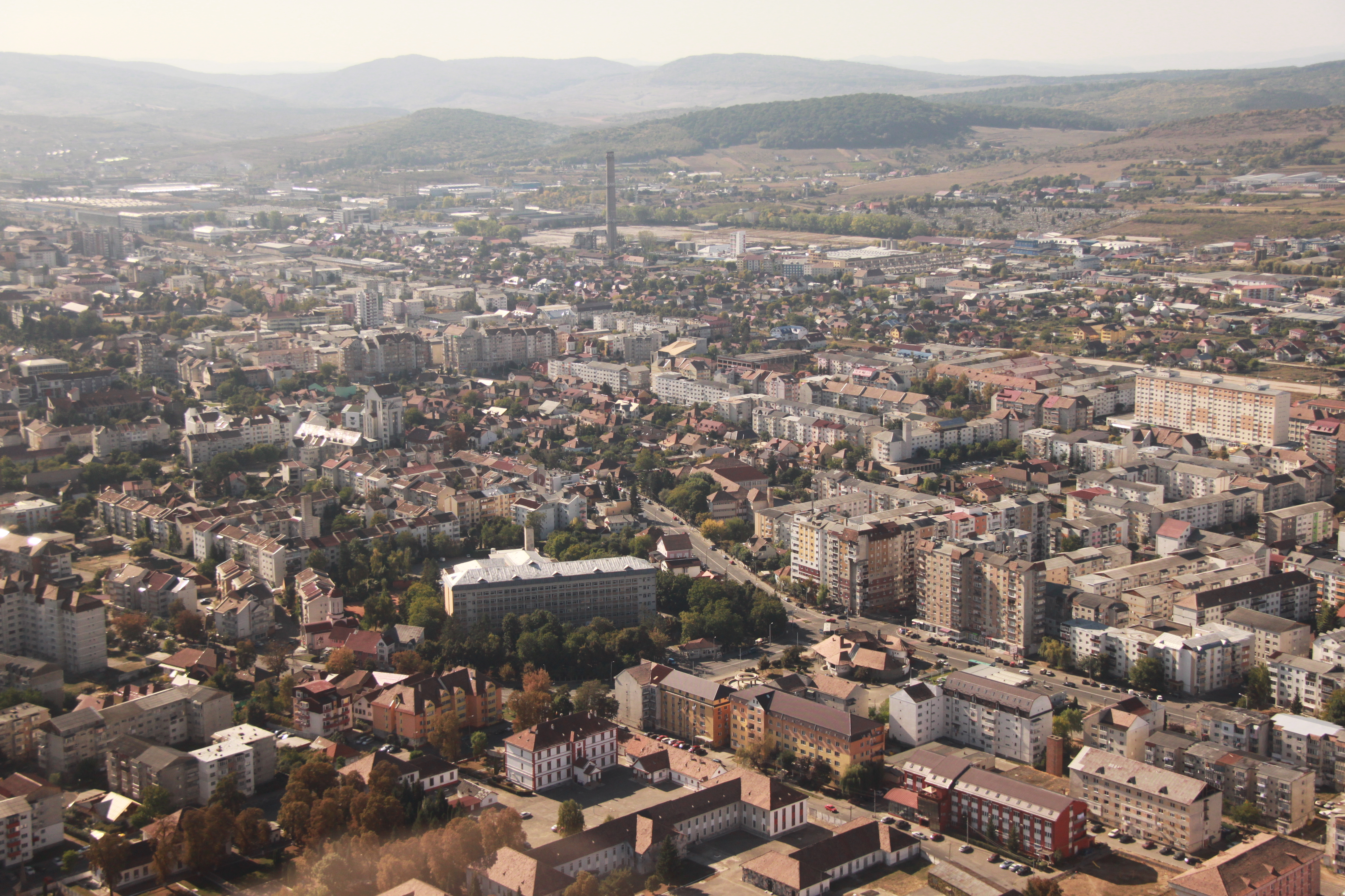 Aerial photo of Bistrița